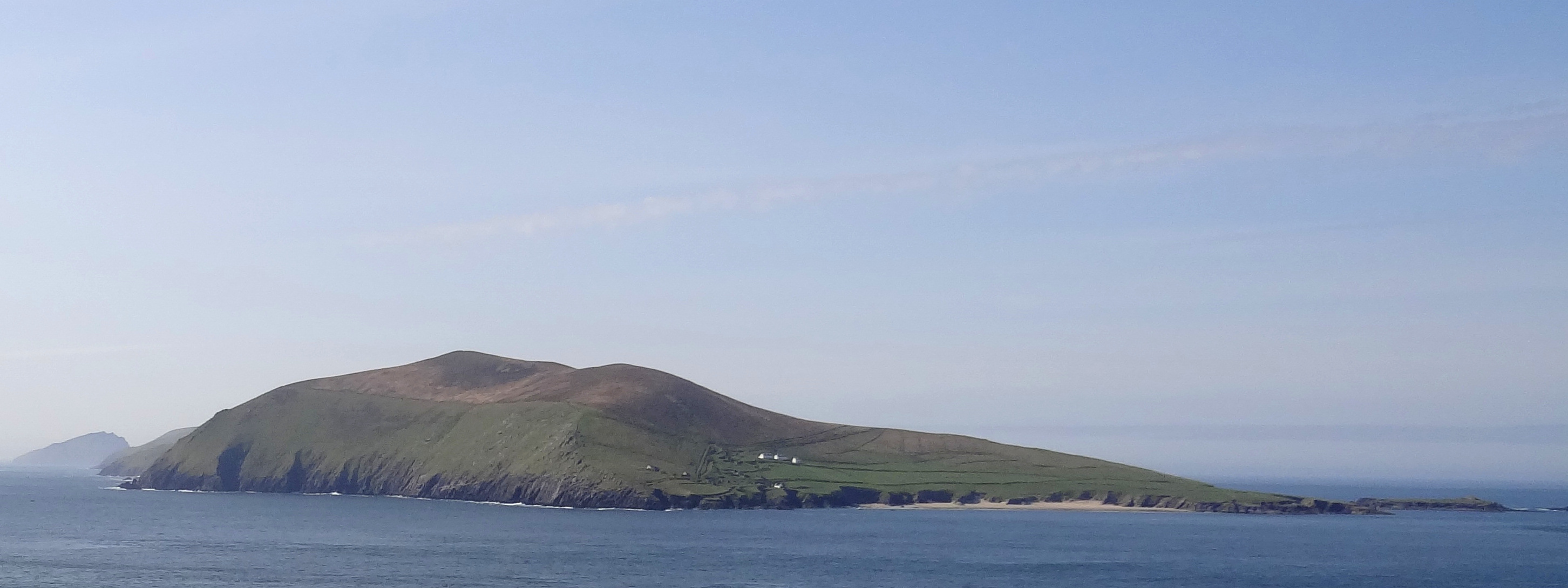 Great Blasket Island photographed from Dunmore Head, Dingle Peninsula, Ireland.